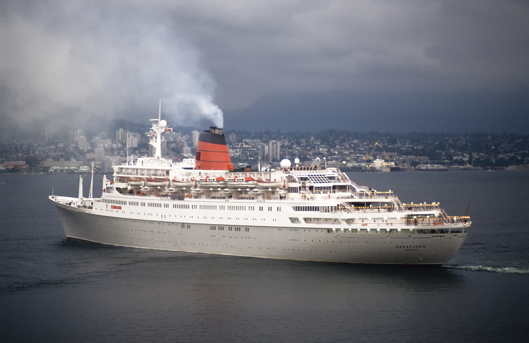 MS Sagafjord 1992 in the harbor Vancouver, Canada. Between 1983 and 1996 the Sagafjord was operated by Cunard Line. In 1996 — 1997 she was shortly operated by Transocean Tours as MS Gripsholm prior to being sold to Saga Cruises as MS Saga Rose. She was retired from service in October 2009 and, as of June 2010, has arrived in China for scrapping.